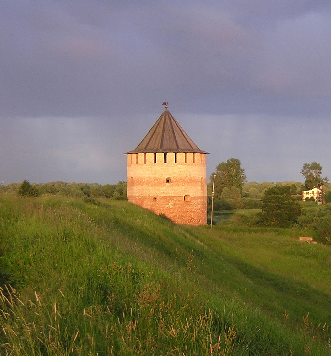 Tower of Alexis (White tower) in Veliky Novgorod, Russia